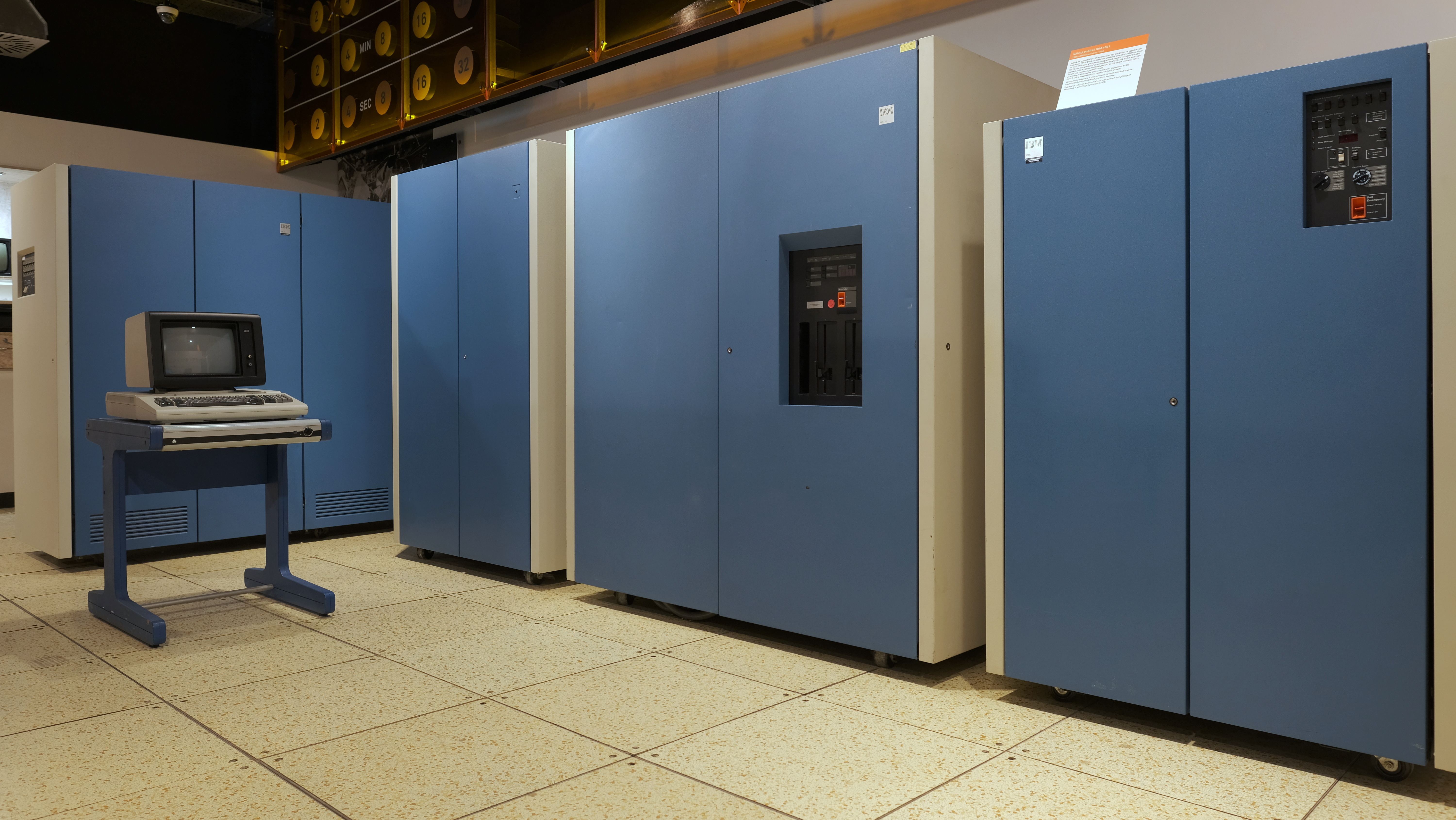 IBM 4381 computer, Technical Museum of Brno.